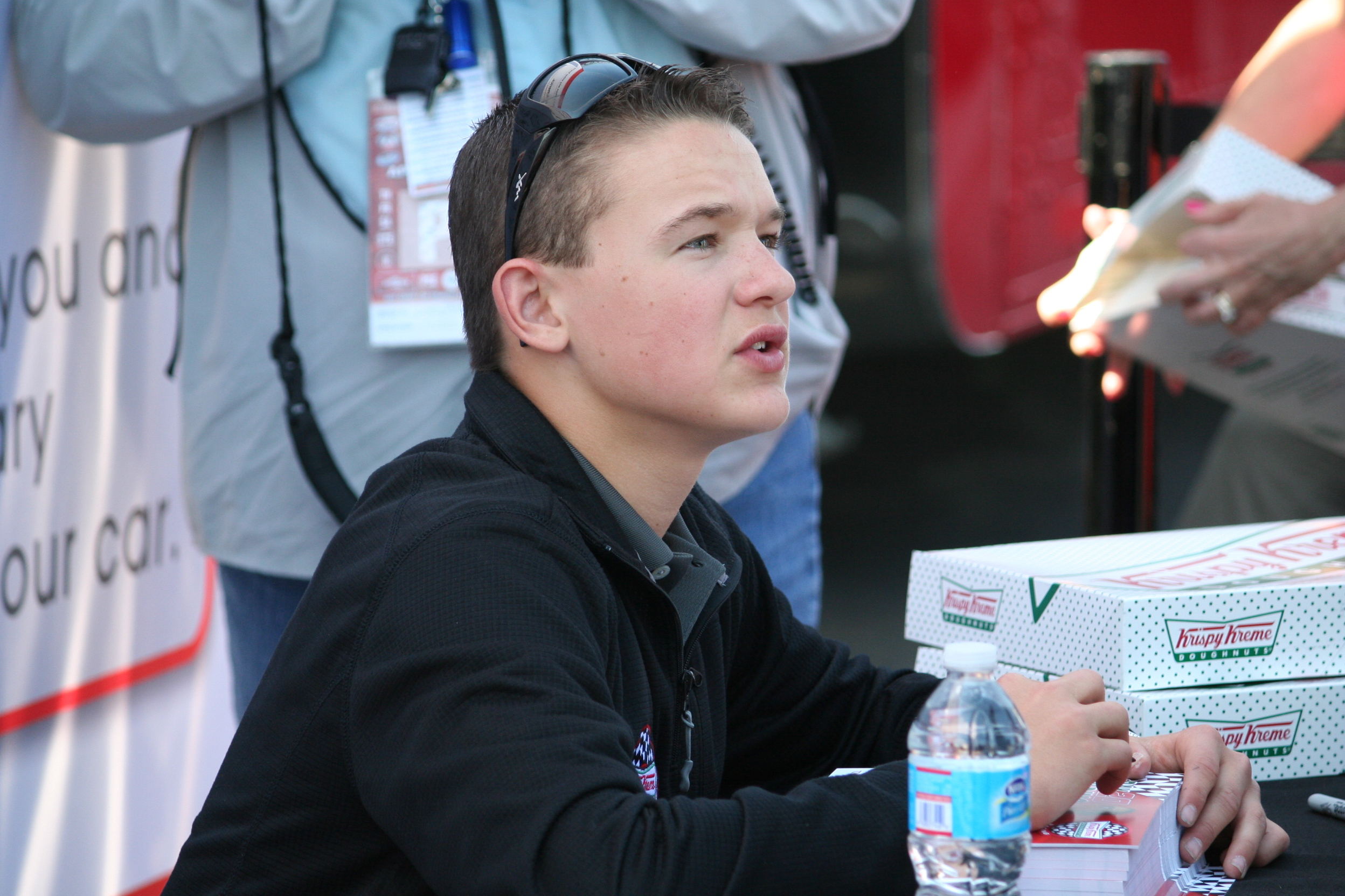 Gray Gaulding signs autographs the day after winning the pole for and finishing 24th in the NASCAR K&N Pro Series East 2013 Blue Ox 100 at Richmond International Raceway.